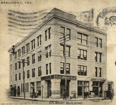 The Gilbert building, Ca. 1903-1910.